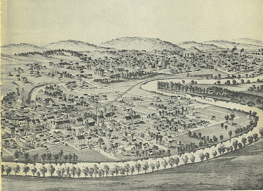 Harmony, Pennsylvania, 1901 Legend: Harmony Butler County Pennsylvania, 1901 Drawn by T.M. Fowler, Morrisville PA. Copyrighted by T.M. Fowler & James B. Moyer Printed by T.M. Fowler & James B. Moyer Public schools Grace Reformed Church Presbyterian Church Methodist Episcopal Church Church of God Opera House The Harmony Milling Co. LTD. Hotel Ziegler, L. N. Zielger[sic] Prop. P & W. R.R. Station Also used as front cover on "George Rapp's Harmony Siciety 1785-1847" by Karl. J. R. Arndt, University of Pennsylvania Press: Philadelphia 1965 without attribution or copyright notice about the drawing.